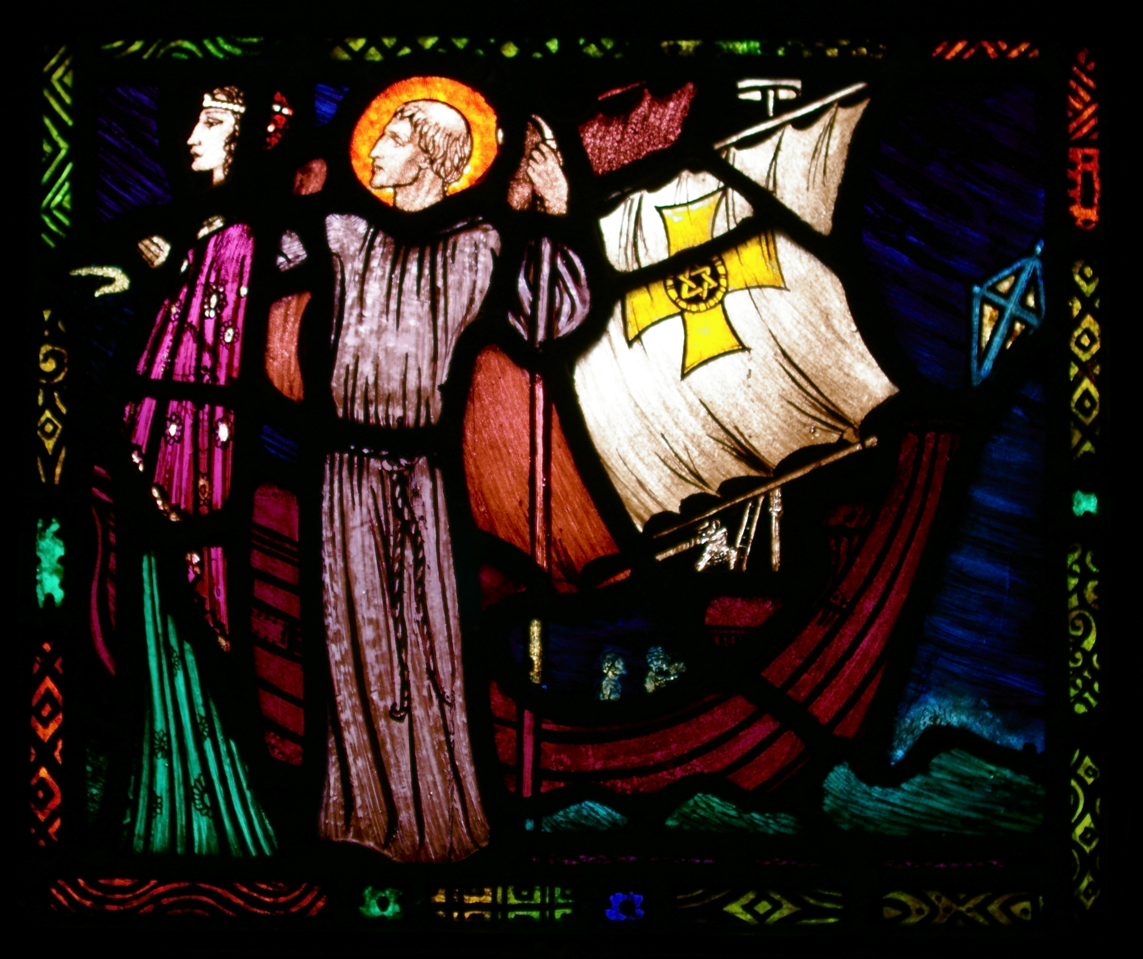 Lower panel of a stained glass window designed by Harry Clarke in 1928 and titled Sts Macartan and Tigernach. Located in Saint Joseph's Church, Carrickmacross, County Monaghan, Ireland.